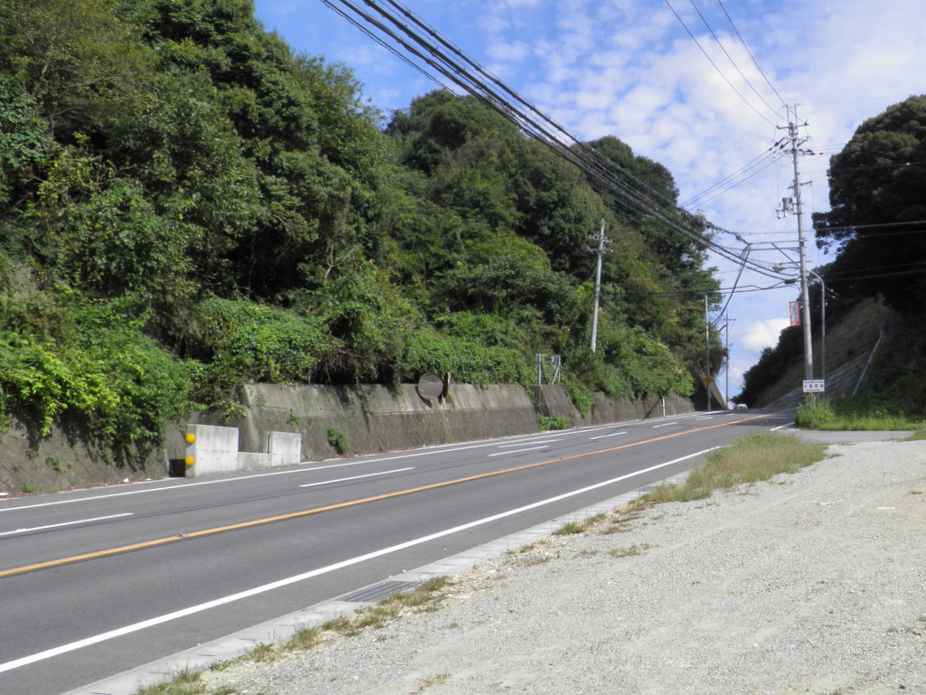 Uno Pass on the National Route 370 in Gojo City, Nara Prefecture, Japan